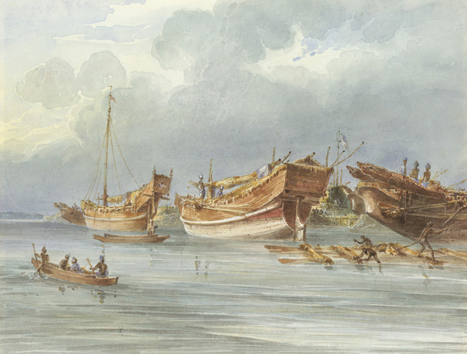 Watercolour by Thomas (Prinsep, 1800-1830) of moored boats from Arakan or Chittagong, dated c.1828. The image is inscribed on the album page: 'Mugh boats'. Mugh is the name commonly applied to natives of Arakan or Chittagong. Thomas Prinsep came from a family who served in India for three generations; five of his brothers were also in the country. Thomas was in charge of the surveying of the Sunderbunds; a large area of fresh and saltwater mangrove swamp in Bengal covering sixty to eighty miles and consisting of flat marshy islands covered with dense forests, inhabited by crocodiles and forming the final retreat of the Bengal Tiger. He made a detailed survey of the area and his maps of the 24 Parganas District formed part of the Hodges map of the Sunderbunds published in 1831. The limits of the Sunderbunds forest is known as 'The Princeps Line'. Thomas was sent to Chittagong in 1826.